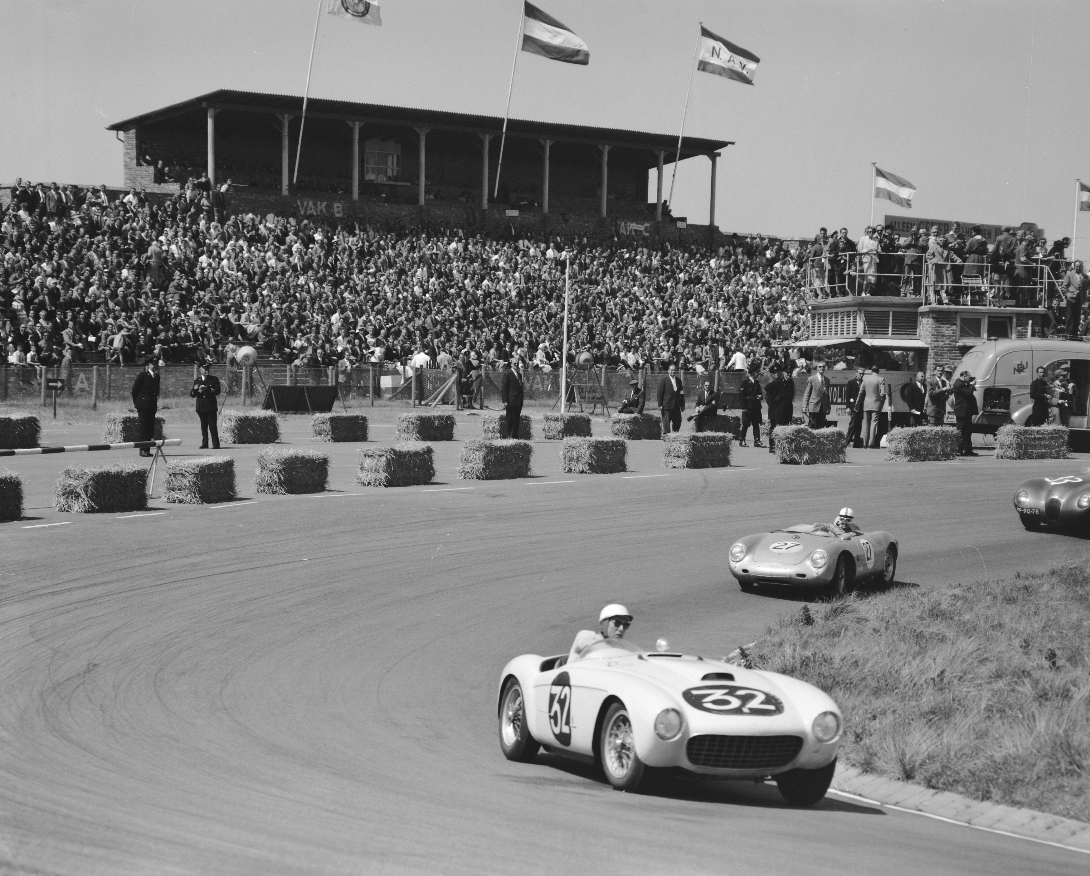 1954 Ferrari 250 Monza Spyder Pinin Farina s/n 0420M driven (#32) by dutch owner Hans Tak at the Zandvoort on June 9, 1957. Behind him is a 5-speed Porsche 550 Spyder #27 driven (for the first time) by Carel Godin de Beaufort,[1] then a Jaguar C-type "PP-90-78", probably driven by Hans van Dieten[2]. Race was won by Hans Davids in an Aston Martin DB3S.[3]